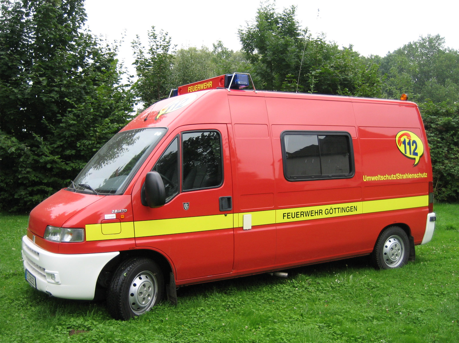 The explorer vehicle for nuclear, biological and chemical threats is a part of the city of Goettingen's unit for defense against hazardous material. The new designation is "CBRN ErkW"